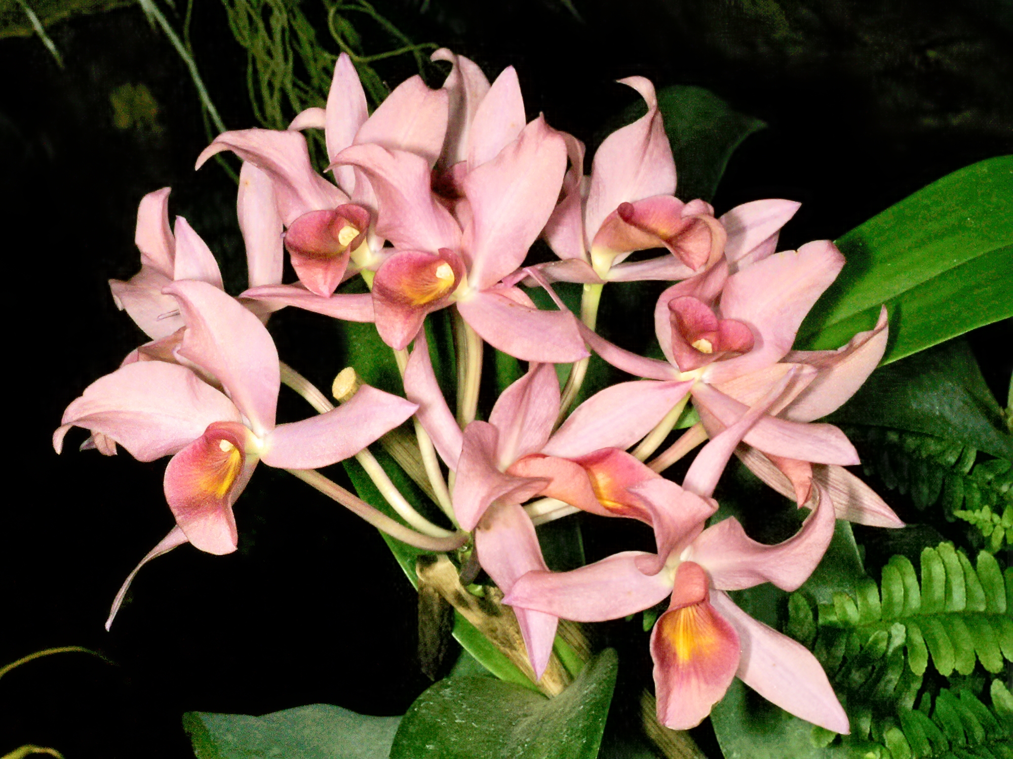 Guarianthe × guatemalensis